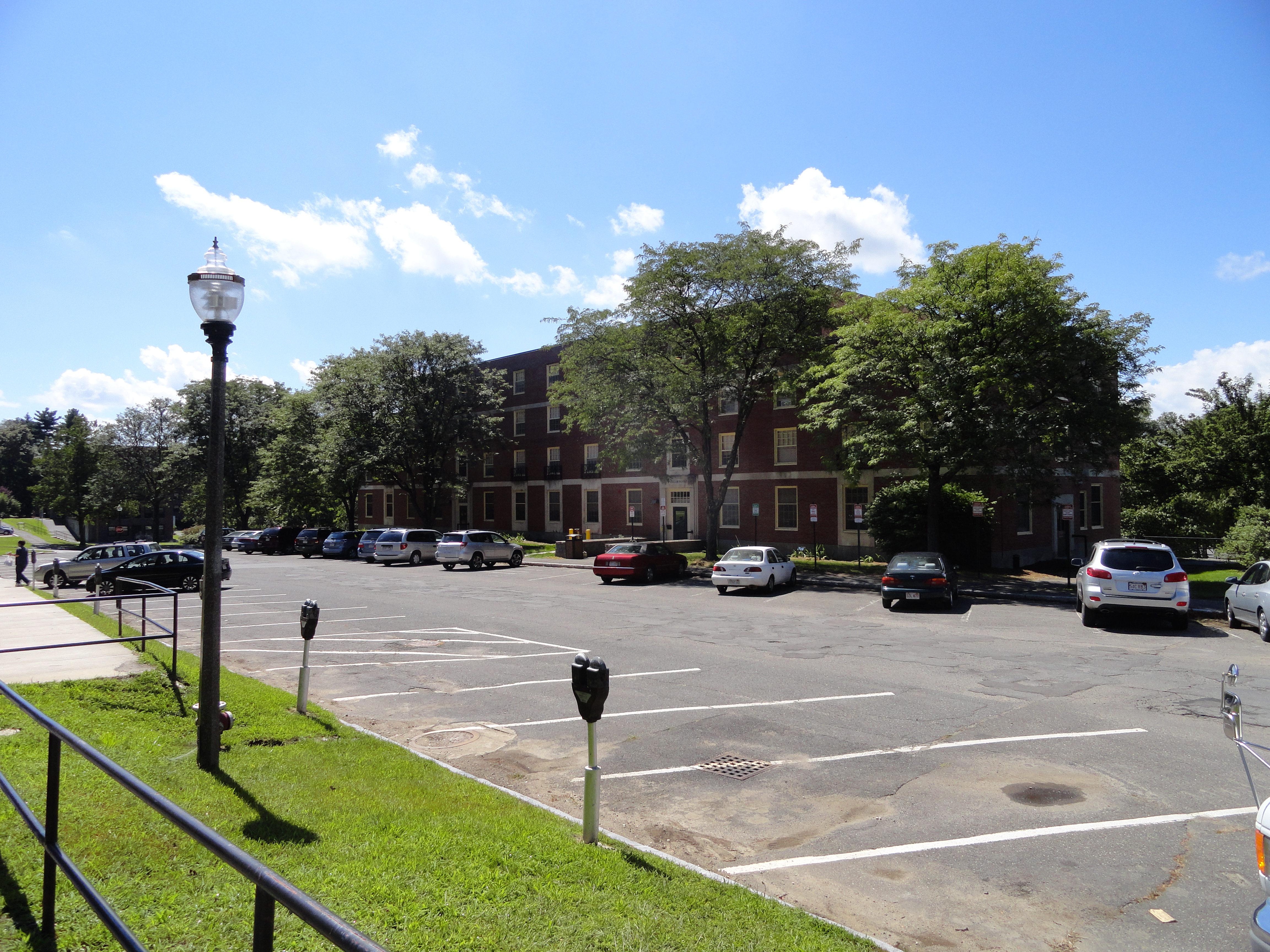 A northeast view of the William Wheeler House at the University of Massachusetts Amherst.